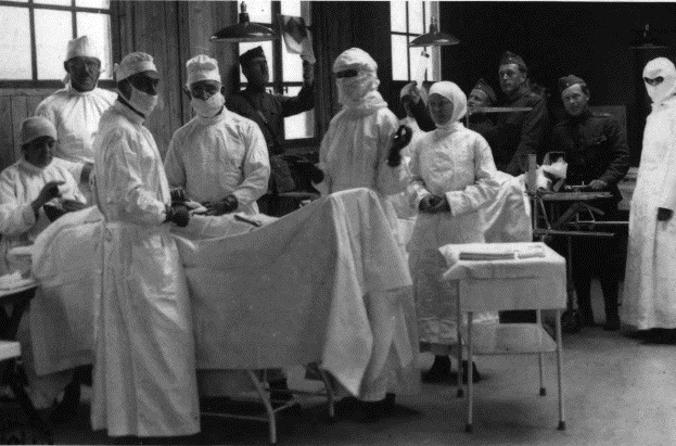 Caption: View of the "new" operating room at Hospital Unit No. 116 which opened just days before this photograph was taken on June 15, 1918. Lieutenant Colonel Wolkes and Major Hold in Charge. Aulnois-sous-Veruzey (near Commency, Meuse, France)